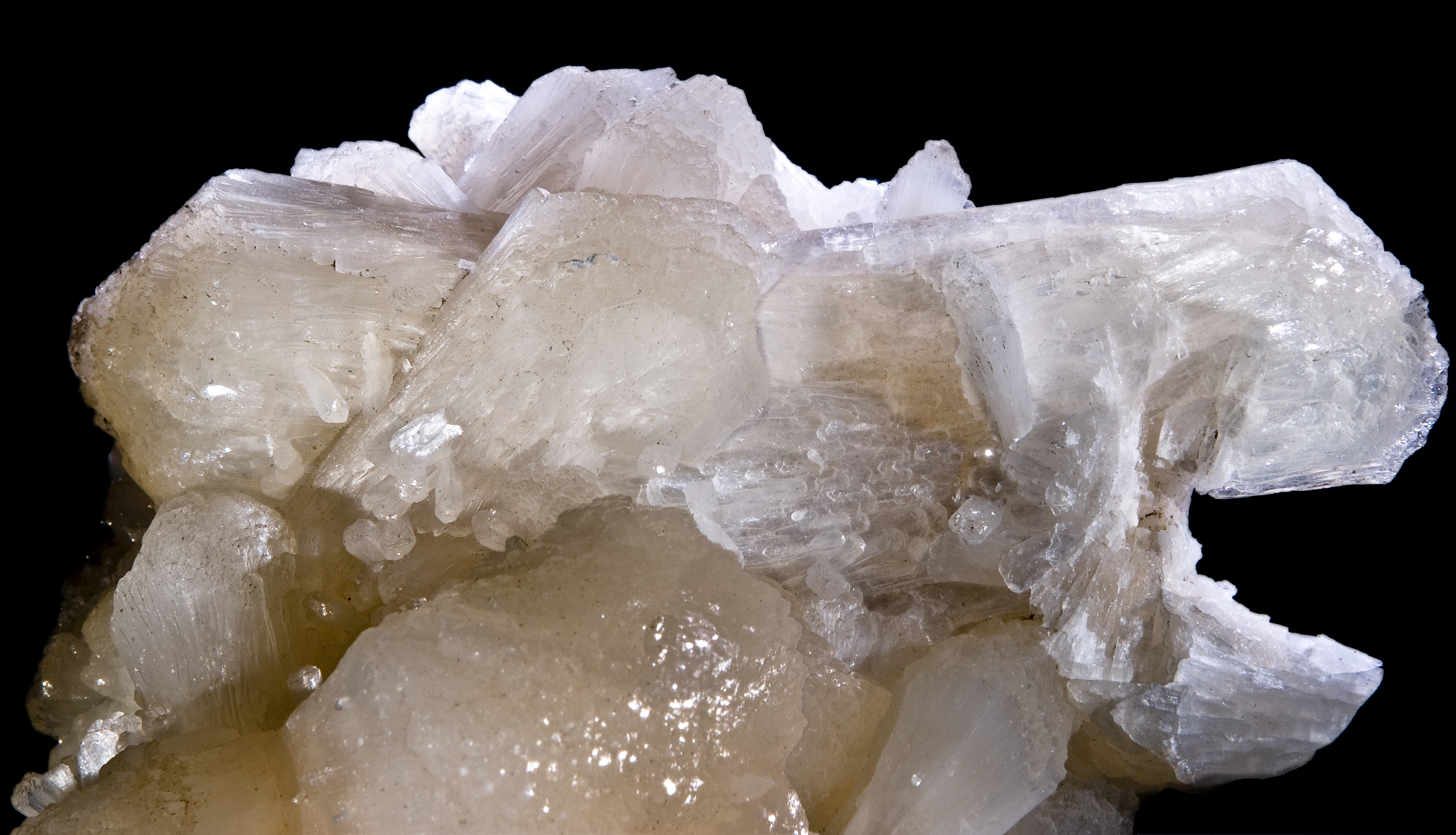 Stilbite Locality : Nasik quarry, Nasik District, Maharashtra, India Size : XX10cm